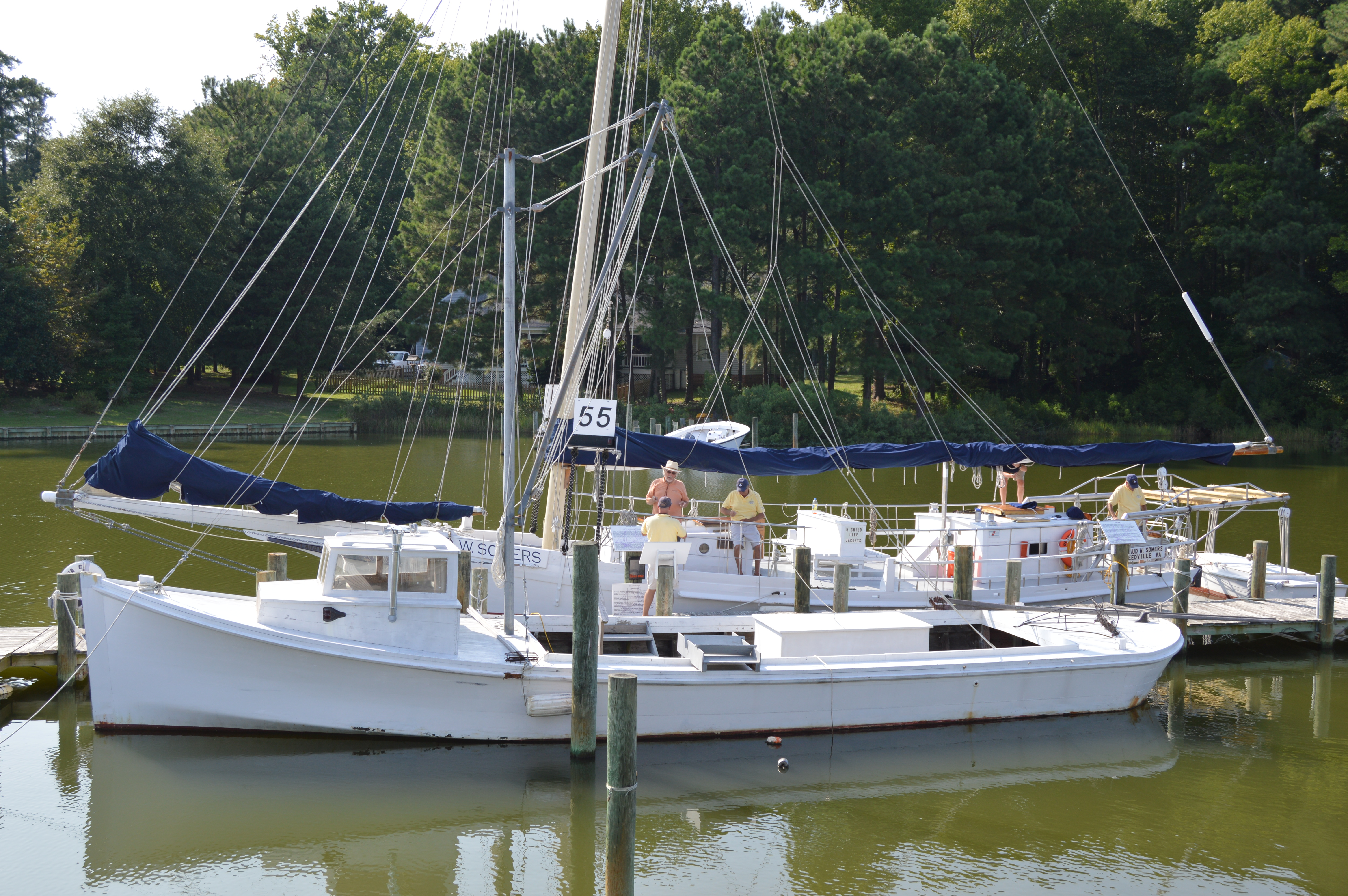 Men tie up the skipjack Claude W. Somers following a short journey. Together with several other boats (including the one on the near side of this pier), Somers is owned by, and kept at, the Reedville Fishermen's Museum on Main Street in Reedville, Virginia, United States. Built in 1911, she is listed on the National Register of Historic Places.